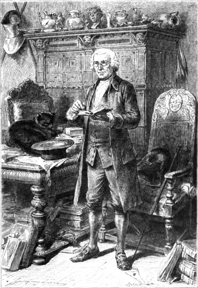 Engraving of an Antiquarian